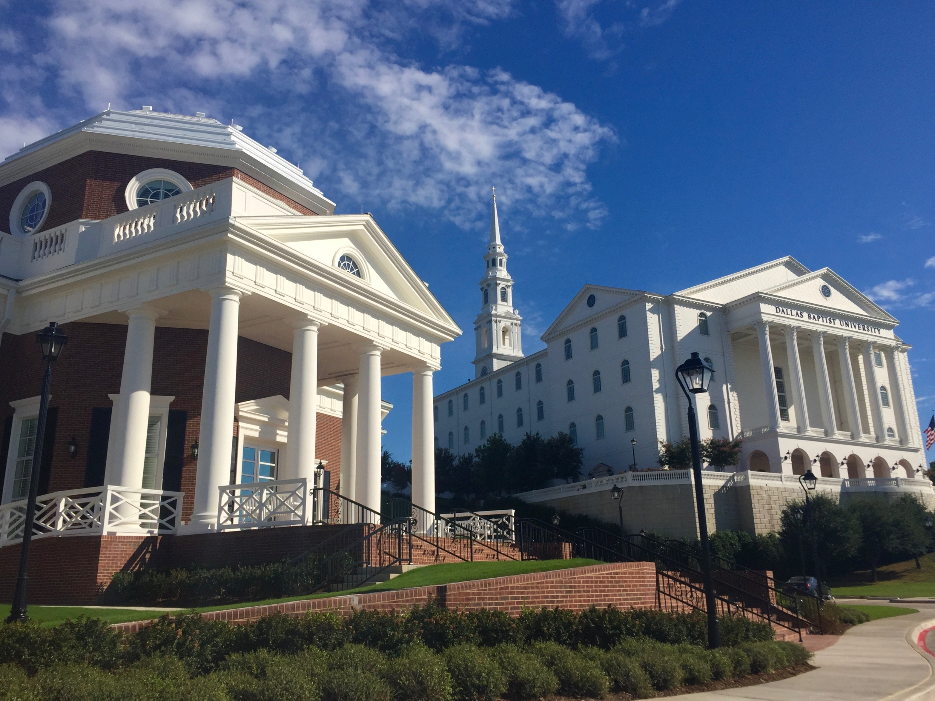 Jim and Sally Nation (foreground), is a replica of Jefferson's Monticello. Patty and Bo Pilgrim Chapel is modeled after the First Baptist Church of America. Both are academic buildings at Dallas Baptist University.